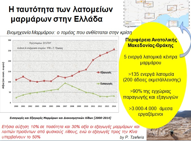 Marble Quarries in Greece